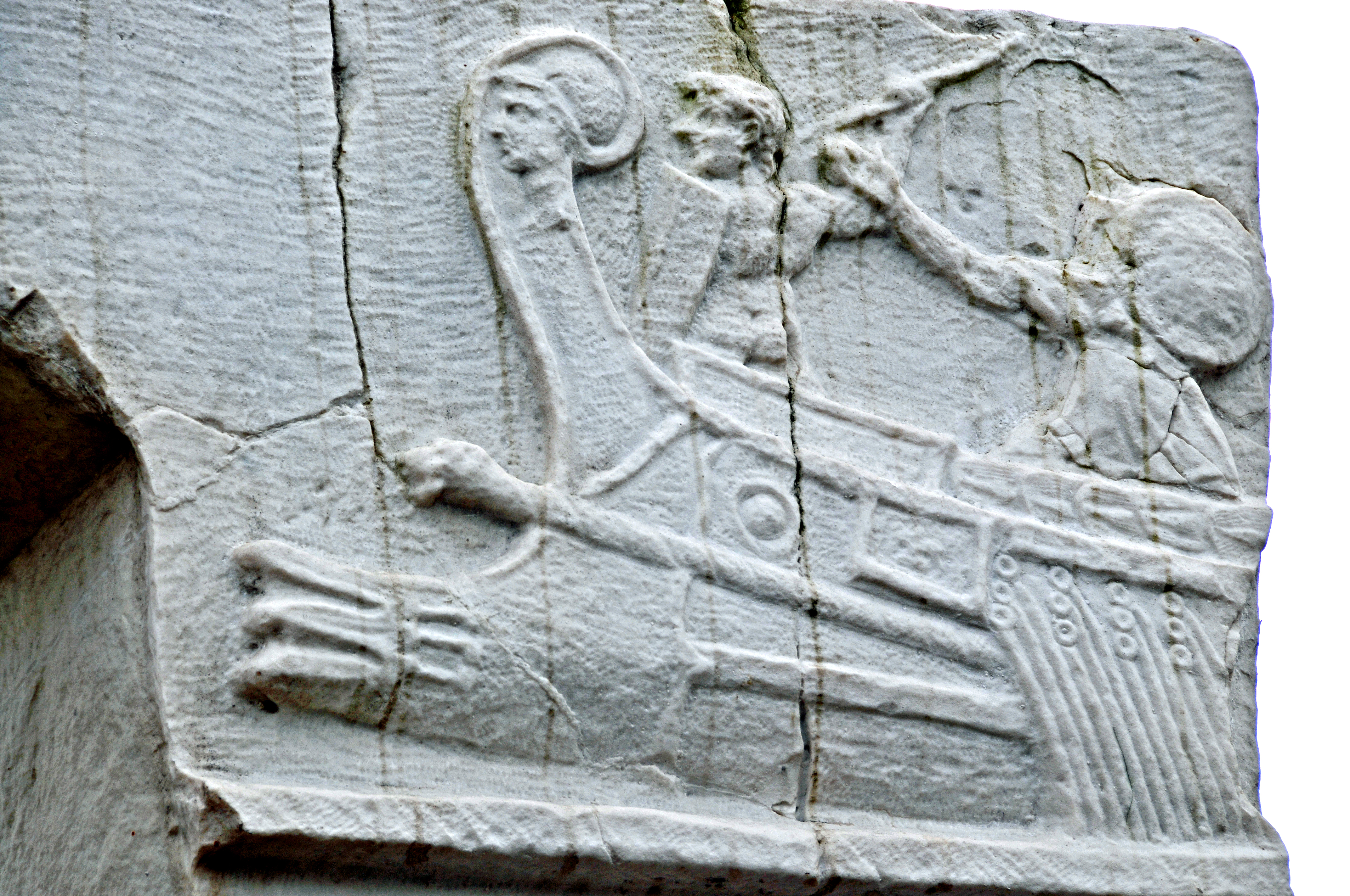 LOve the ship that was used at that time. This monument was built in the first years of the principate of Augustus. The frieze shows a naval battle and infantry. It was probably an important episode in the life of Cartilius, who is buried here, he was a Ostian politician.